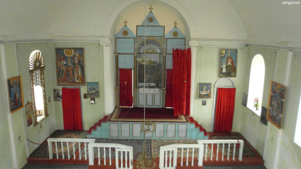 Mec Pamaj | Georgia